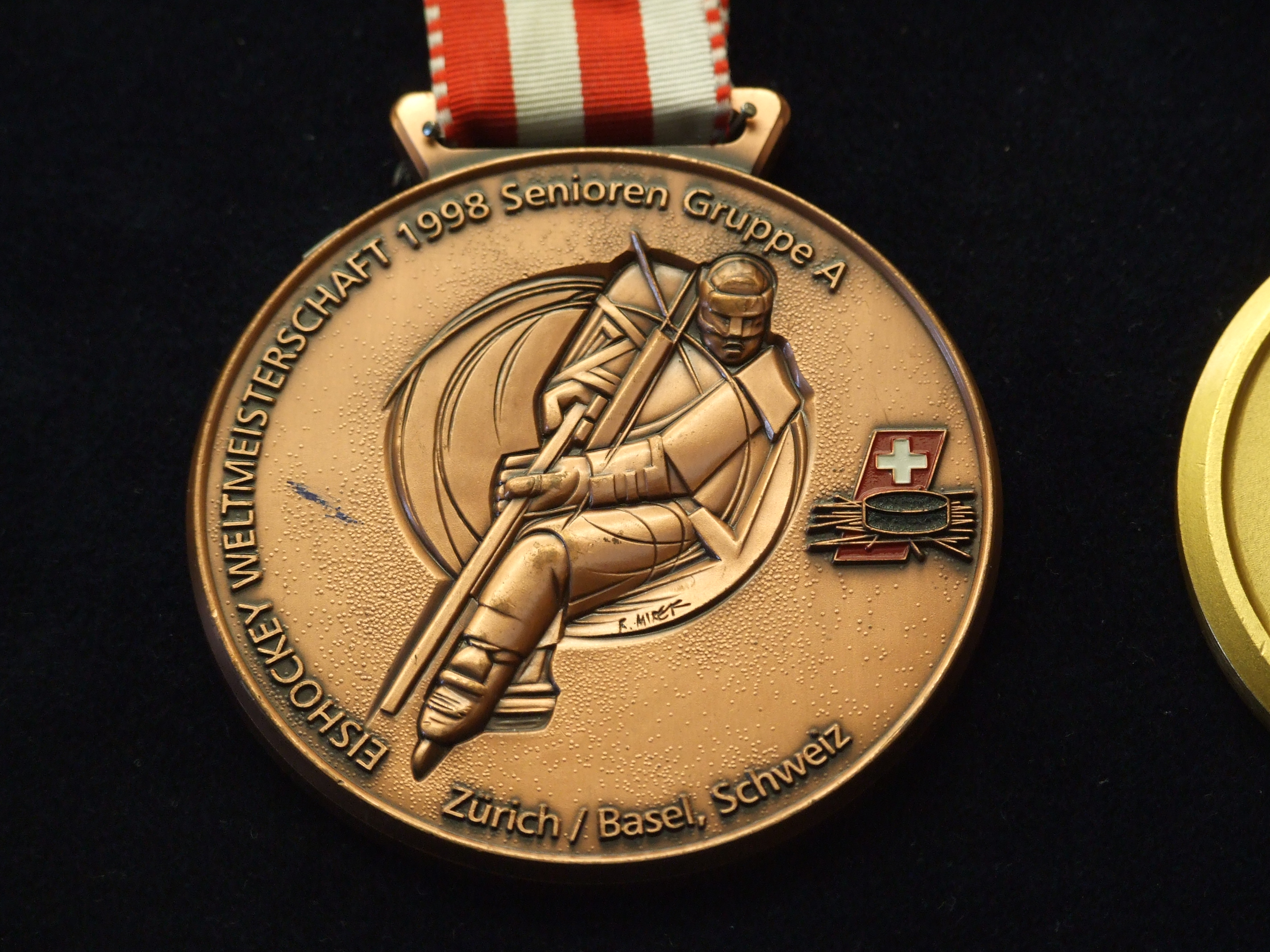 One Century Of Czech Ice Hockey Exhibition, National Museum in Prague: [1]